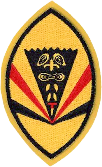 199th Fighter-Interceptor Squadron - Emblem